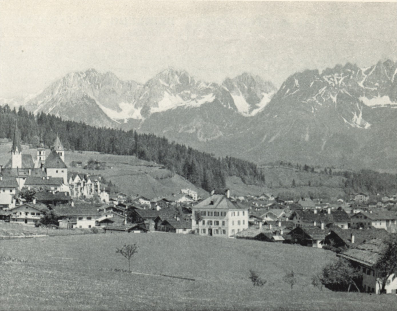 The austrian city of Kitzbühel around 1898